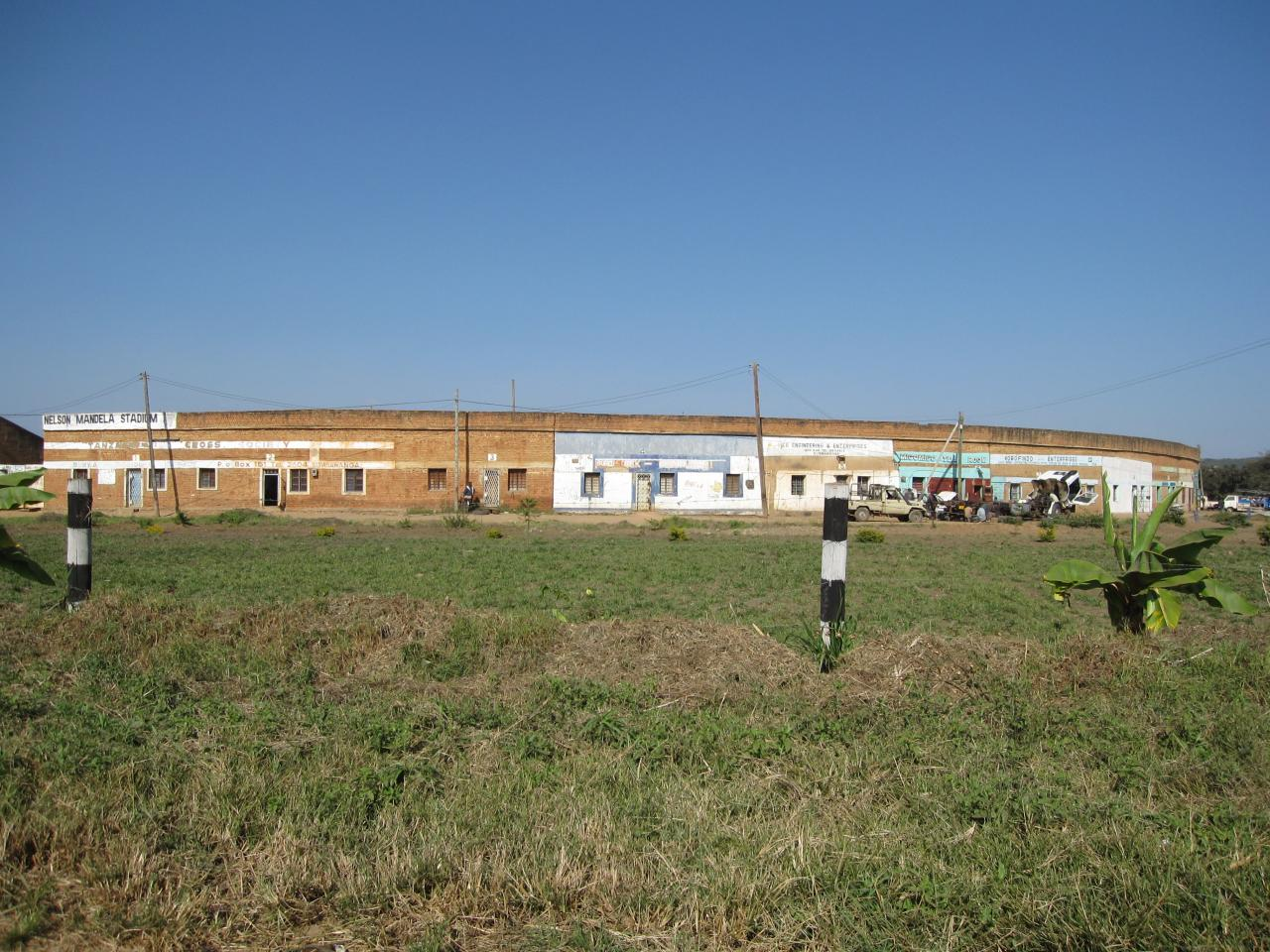 Nelson Mandela Stadium, Sumbawanga, Tanzania